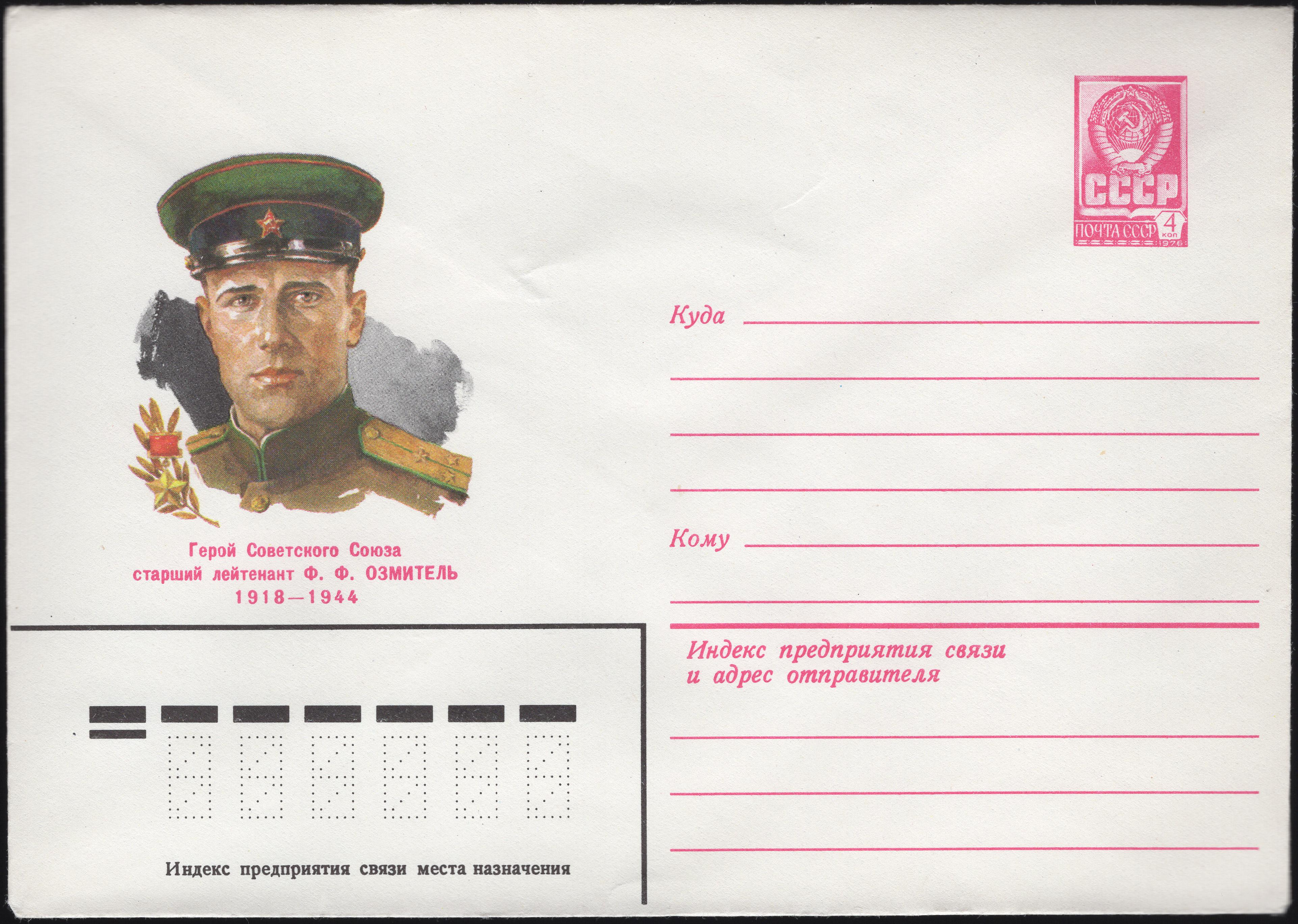 Hero of the Soviet Union Senior lieutenant Fyodor Ozmitel'. 1918-1944. Series: Heroes of the Soviet Union. Artist Peter Bendel.